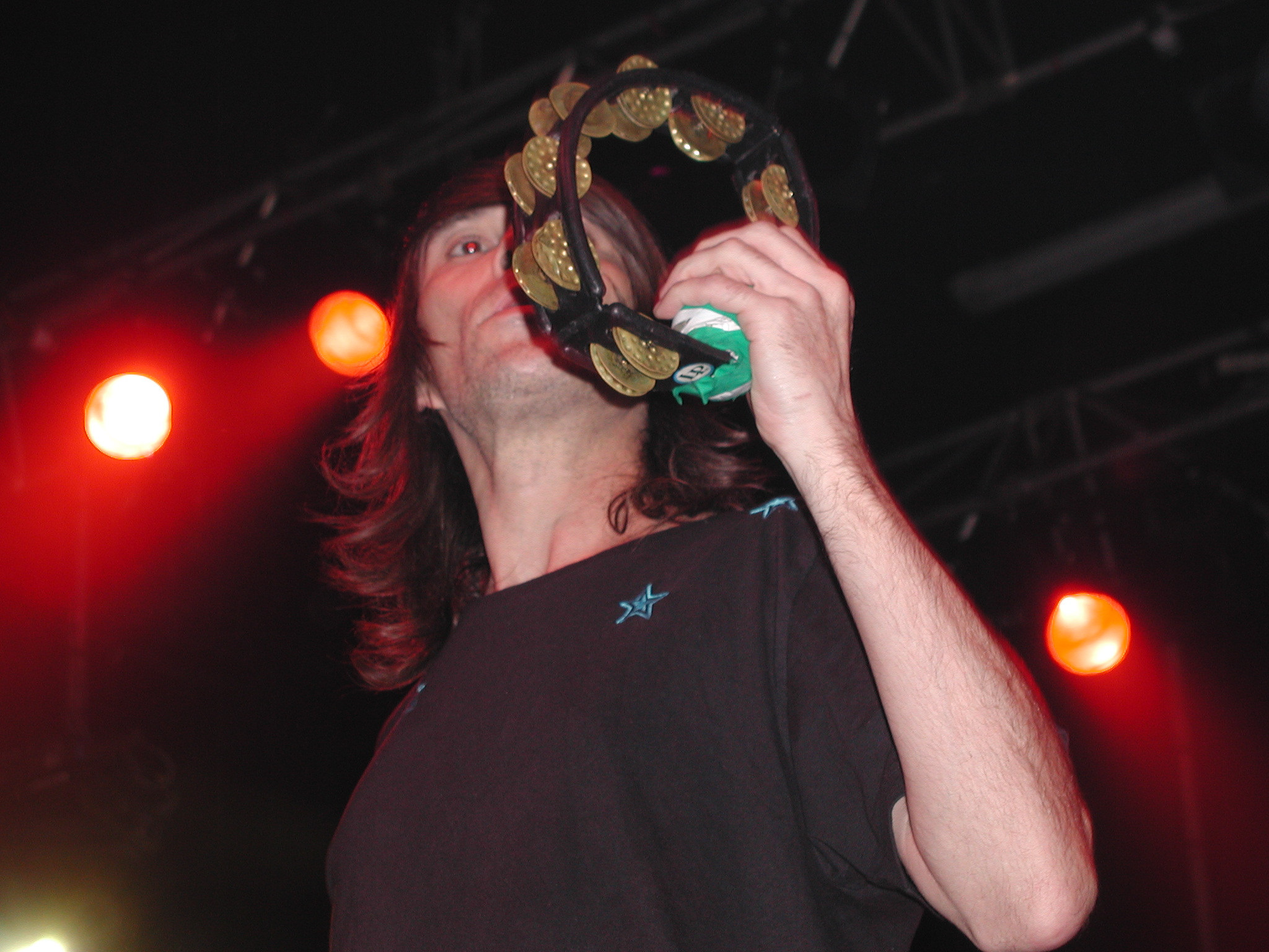 Ian Brown at Paris